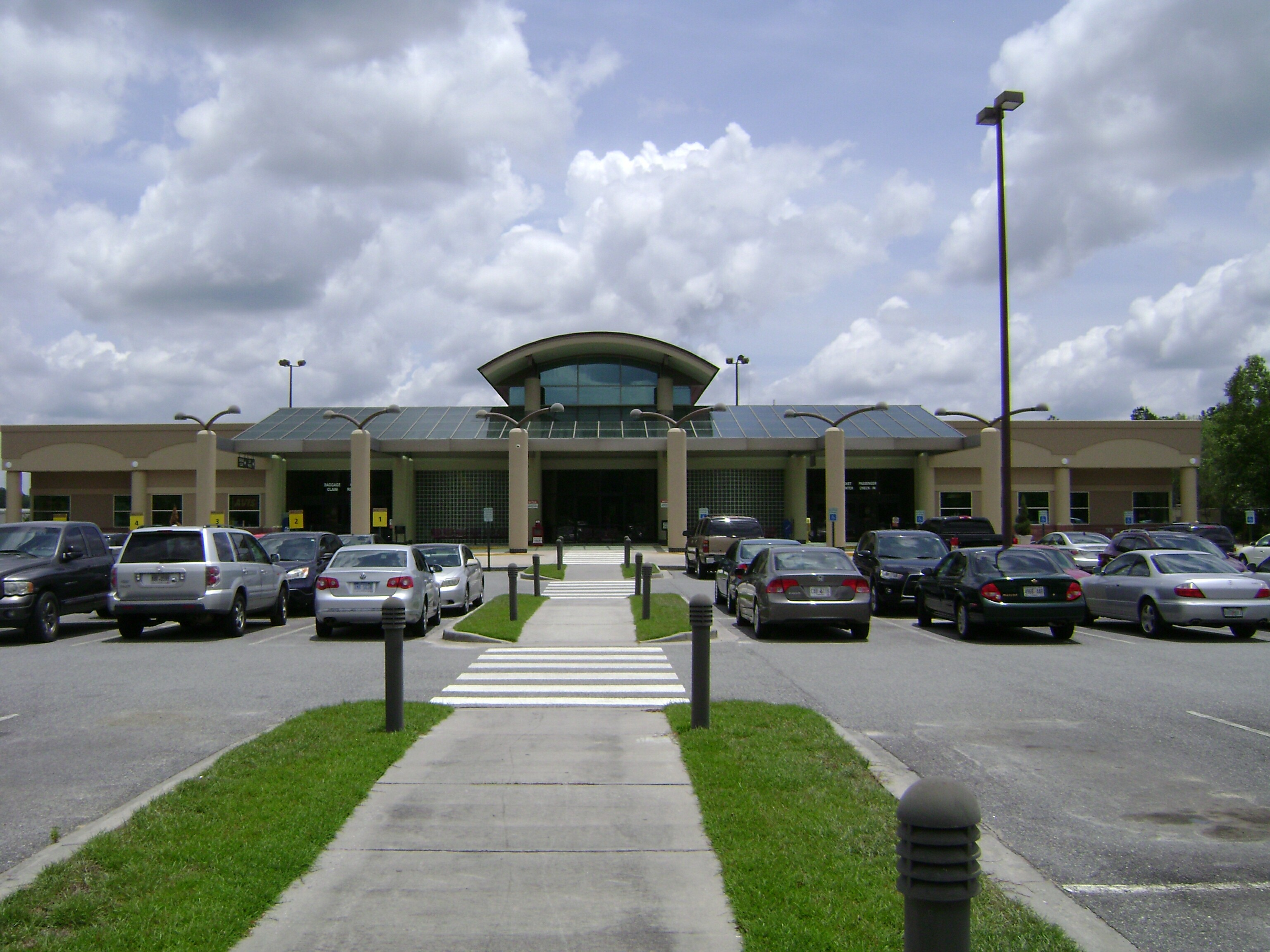 Valdosta Regional Airport (VLD) in Valdosta, Lowndes County, Georgia